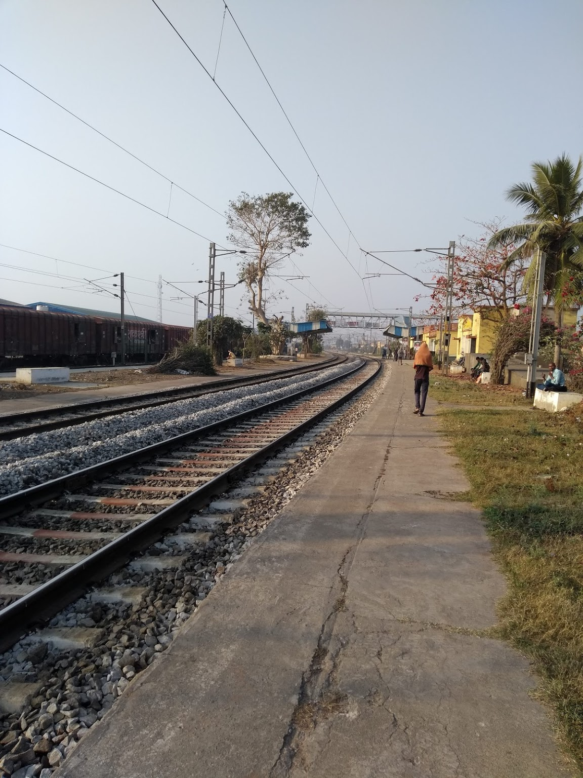 This is the Picture of Jagannathapur railway station